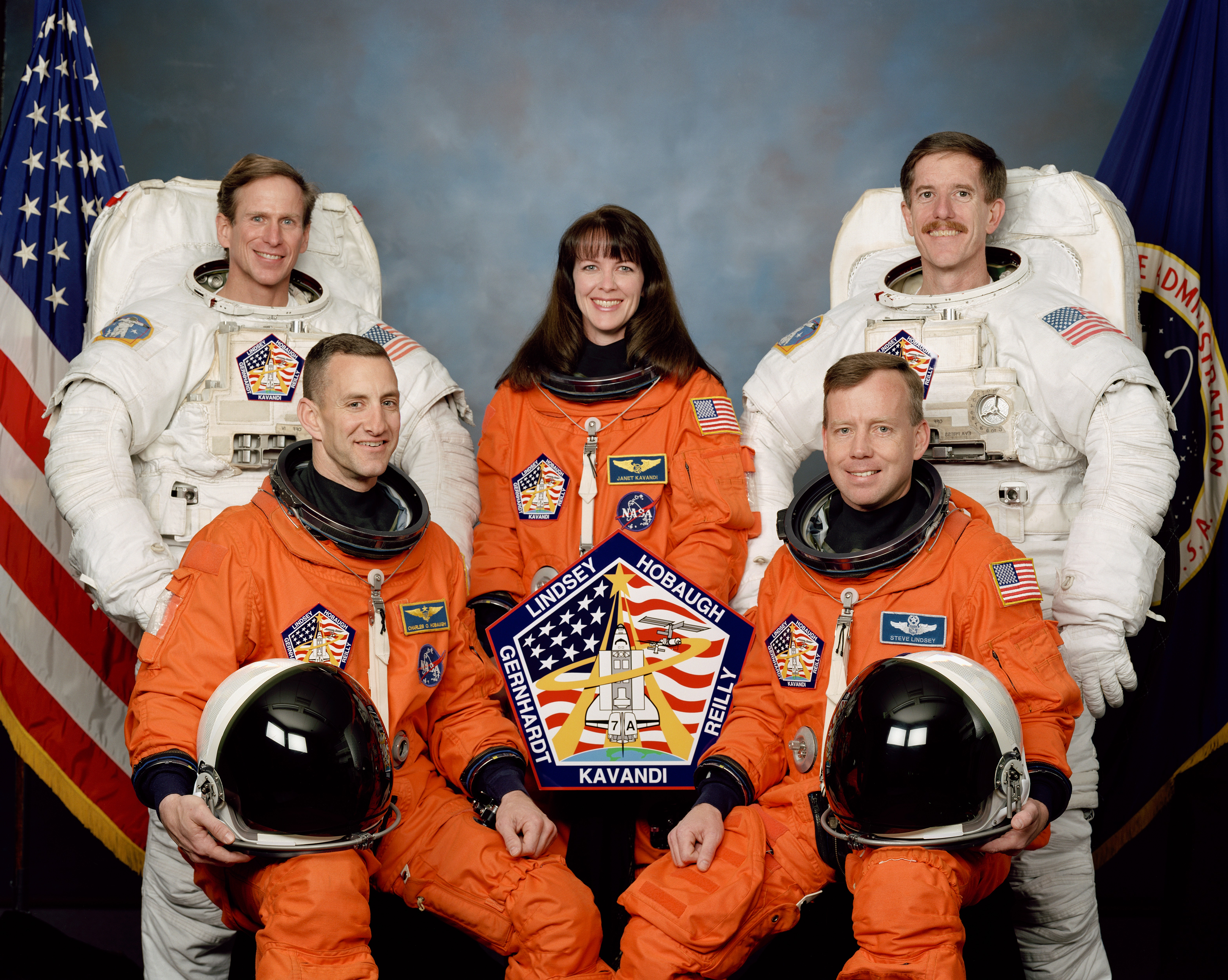 These five astronauts are currently in training for the STS-104 mission, scheduled for a June 2001 liftoff. Seated with the crew insignia are astronauts Steven W. Lindsey (right), mission commander; and Charles O. Hobaugh, pilot. Standing, from left, are astronauts Michael L. Gernhardt, Janet L. Kavandi and James F. Reilly, all mission specialists.